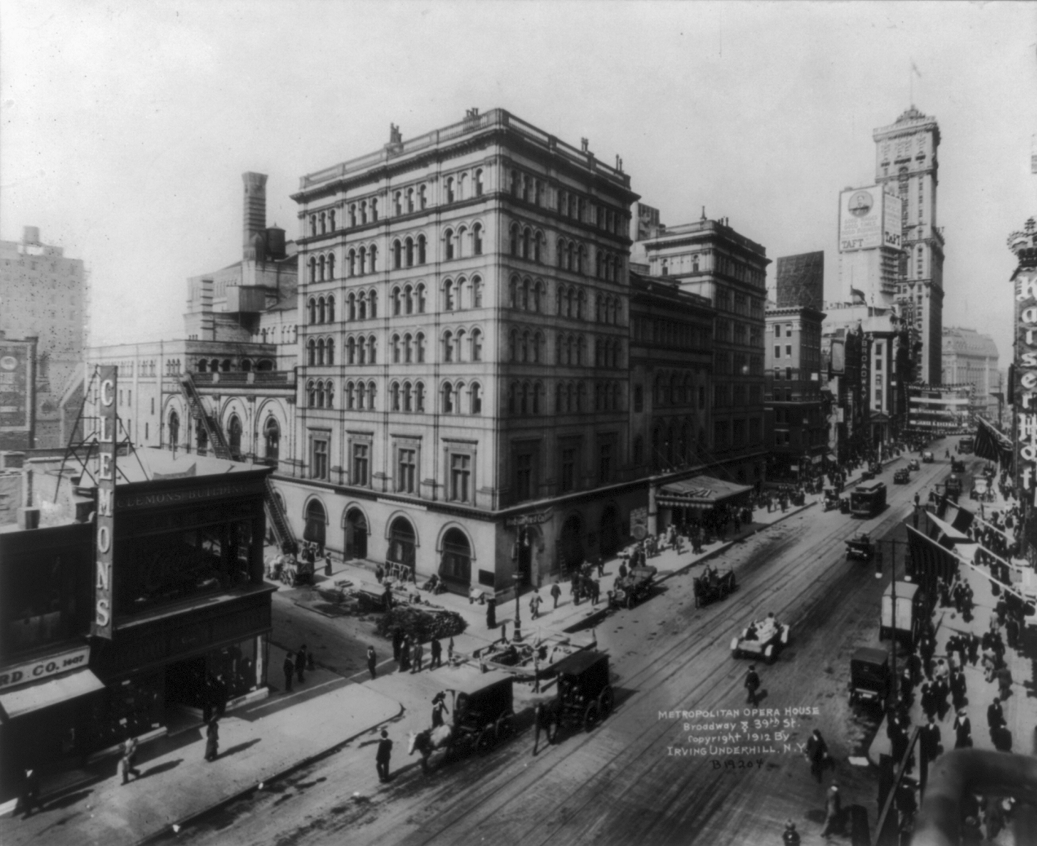 Metropolitan Opera House, New York City